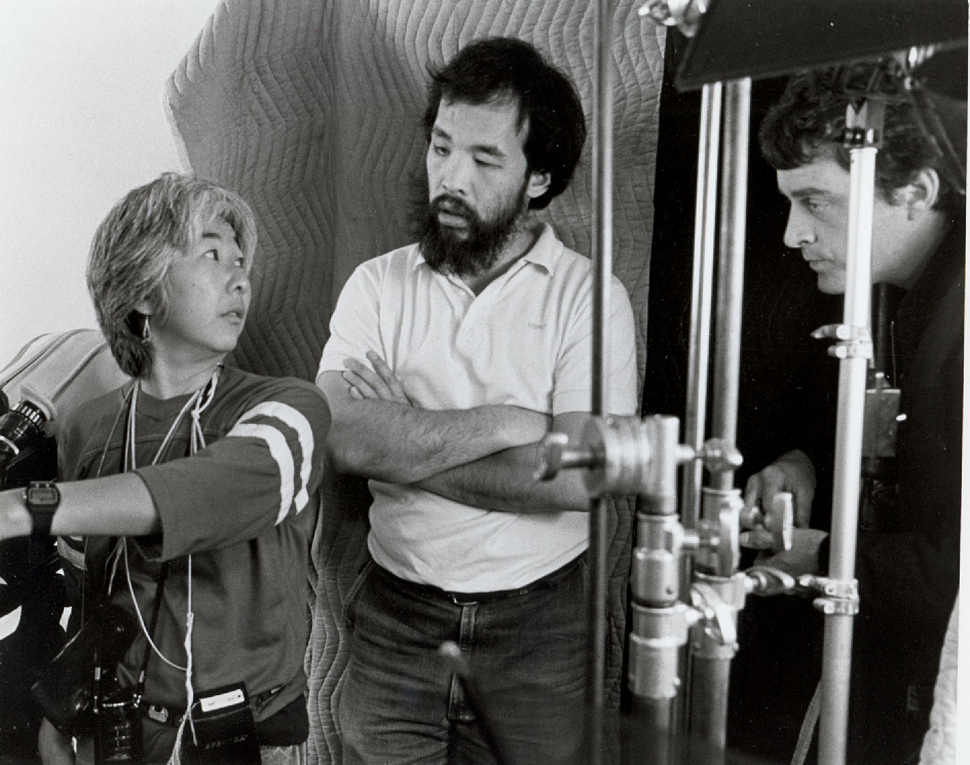 Cinematographer Emiko Omori with camera operator Michael Chin (center) and gaffer Patrick Shellenberger, on Wayne Wang's 1983 film, Dim Sum A Little Bit of Heart, a film set in San Francisco, California.